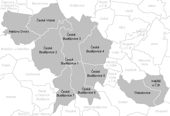 Cadastral map of České Budějovice